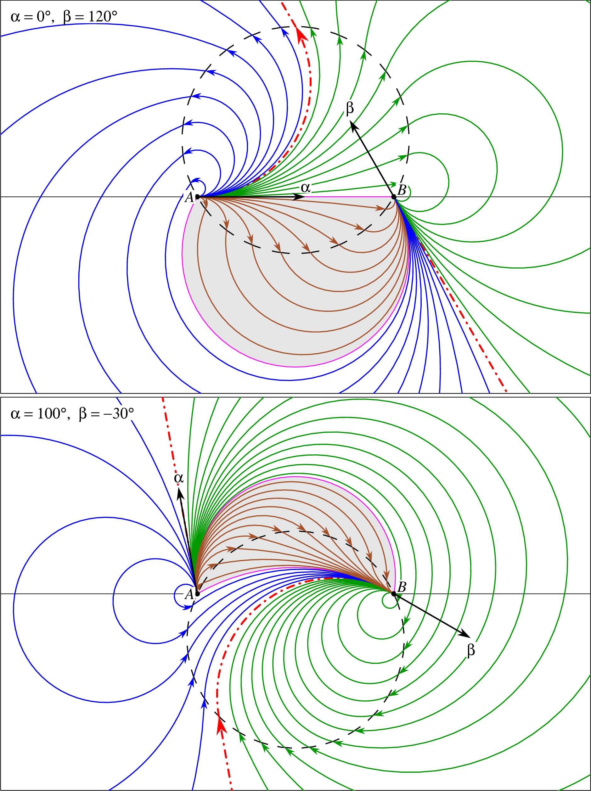 Illustration of Biarcs: families of biarcs with common end-tangents. two examples